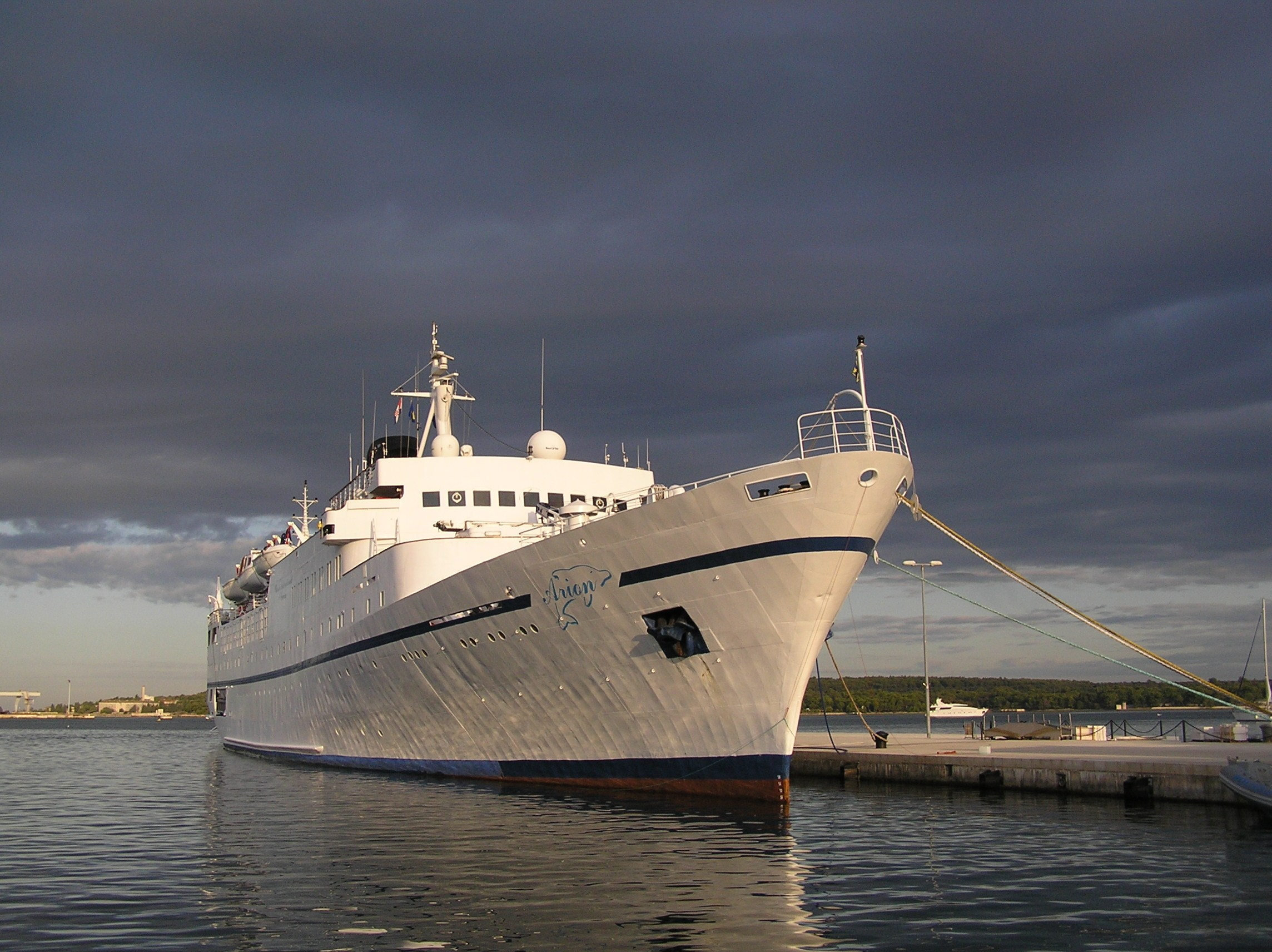 MS Arion in Pula, Croatia IMO Number: 6419057 MMSI Number: 255969000 Callsign: CQUU Length: 118 m Beam: 16 m